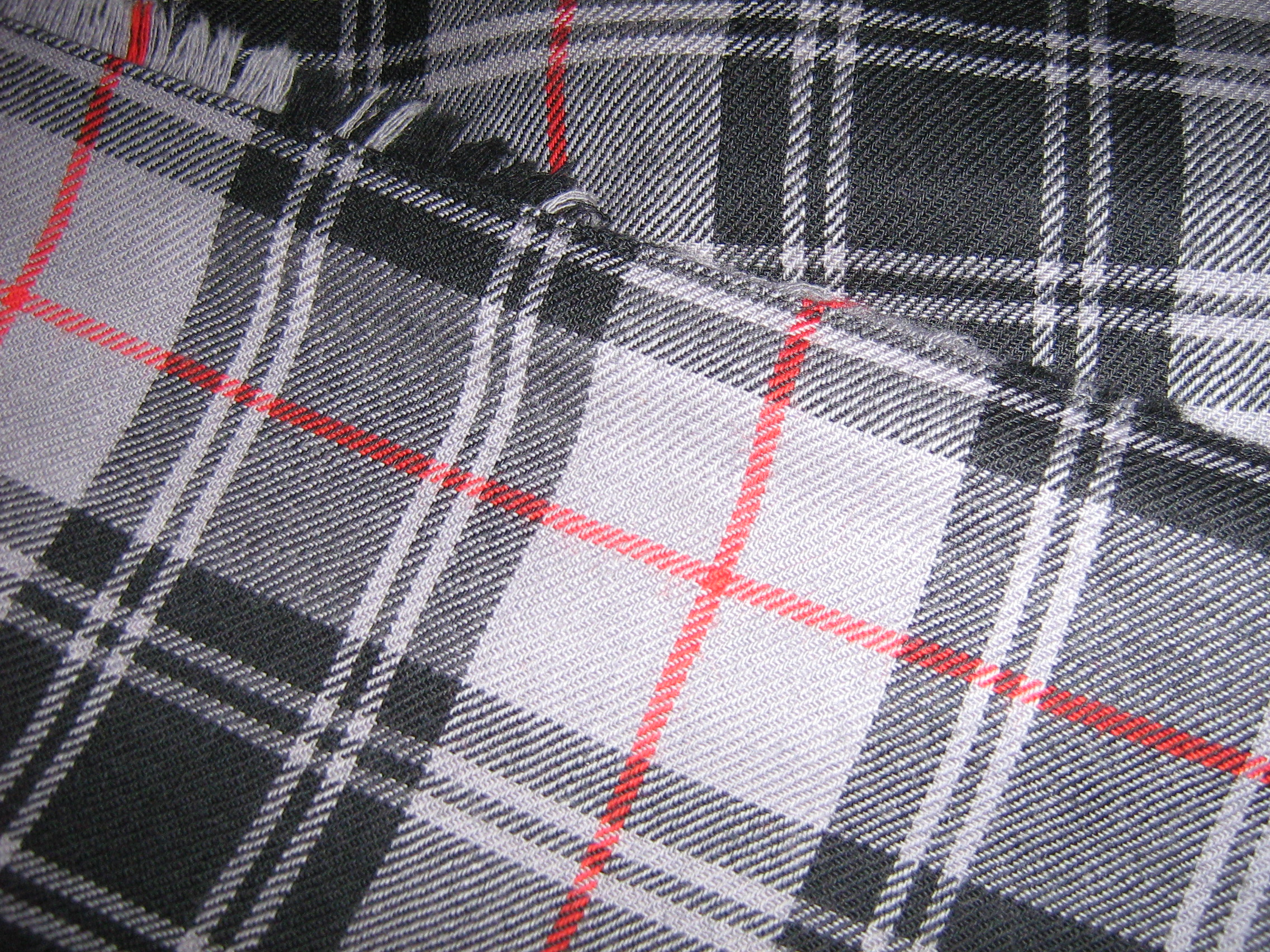 Kilt showing Moffat tartan.